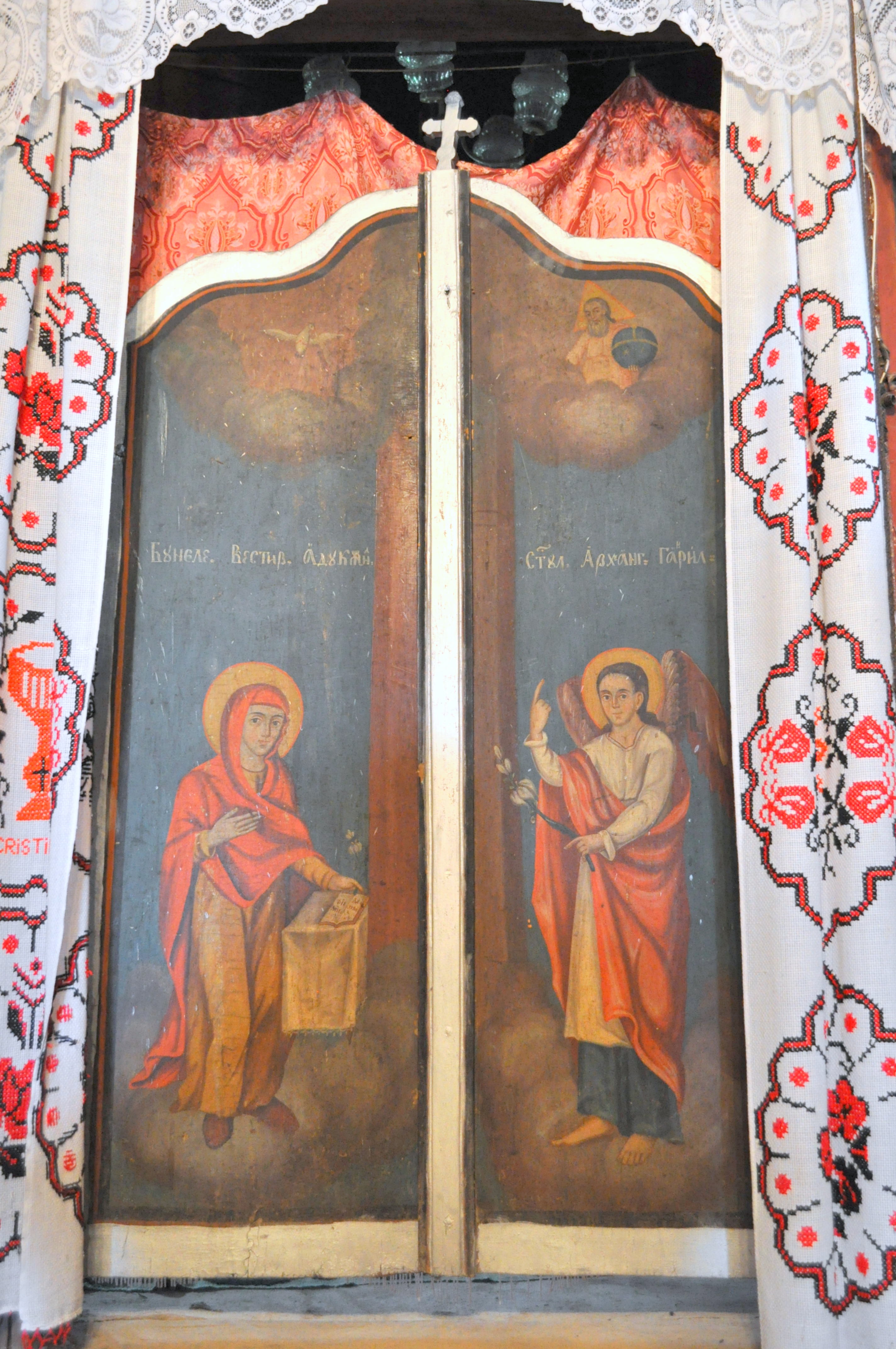 The old wooden church in Bruznic, Arad county, Romania